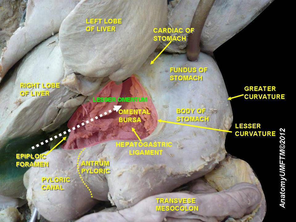 Anatomical dissections